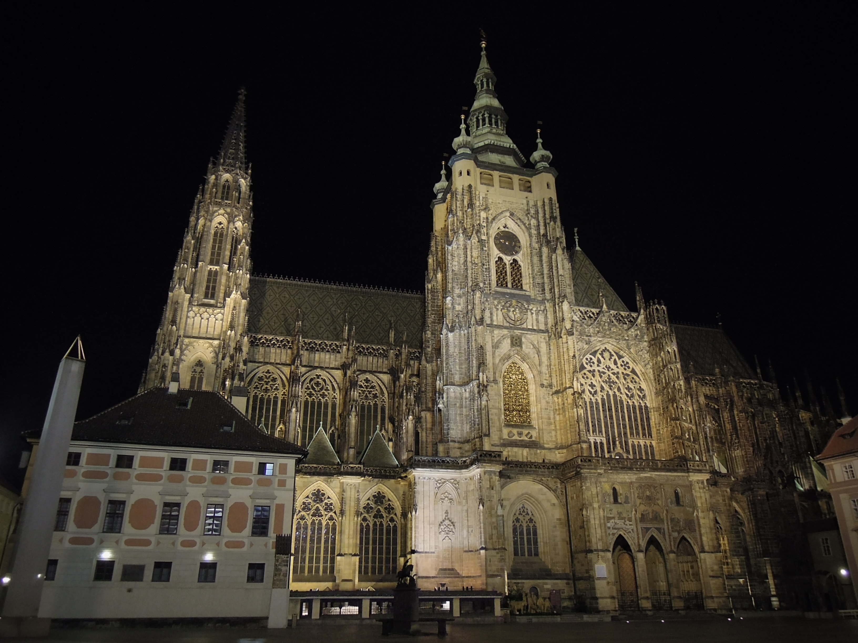 St. Vitus Cathedral in Prague, Czech Republic